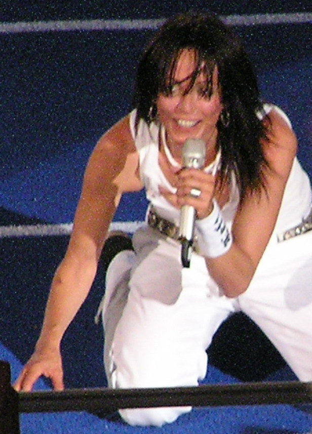 Nena at the opening of the Berliner Olympiastadion on July 31st, 2004